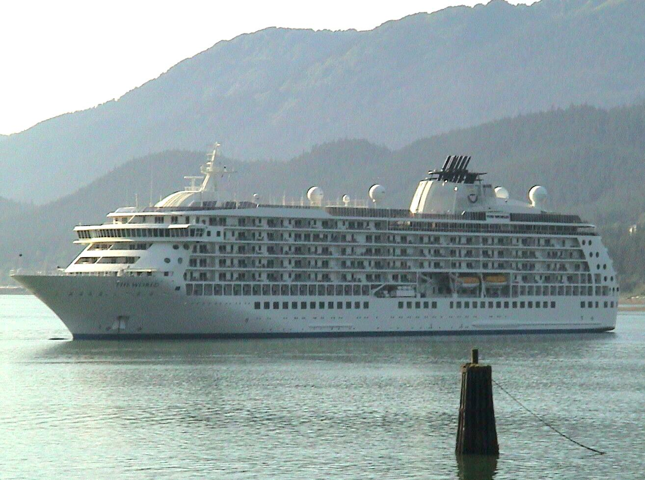 Cruise ship, "The World," in Juneau, Alaska. I (Eric V. Blanchard) took this photo from my hotel room in August 2003. I permanently relinquish all rights to the work. --Evb-wiki 14:28, 22 December 2006 (UTC)